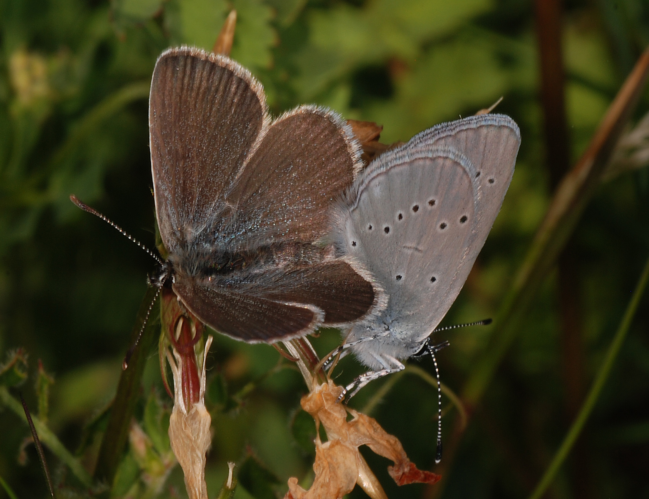 Cupido minimus, male and female in cop, England, Maidenhead, Pinkneys Green, Alan Cassidy photo.